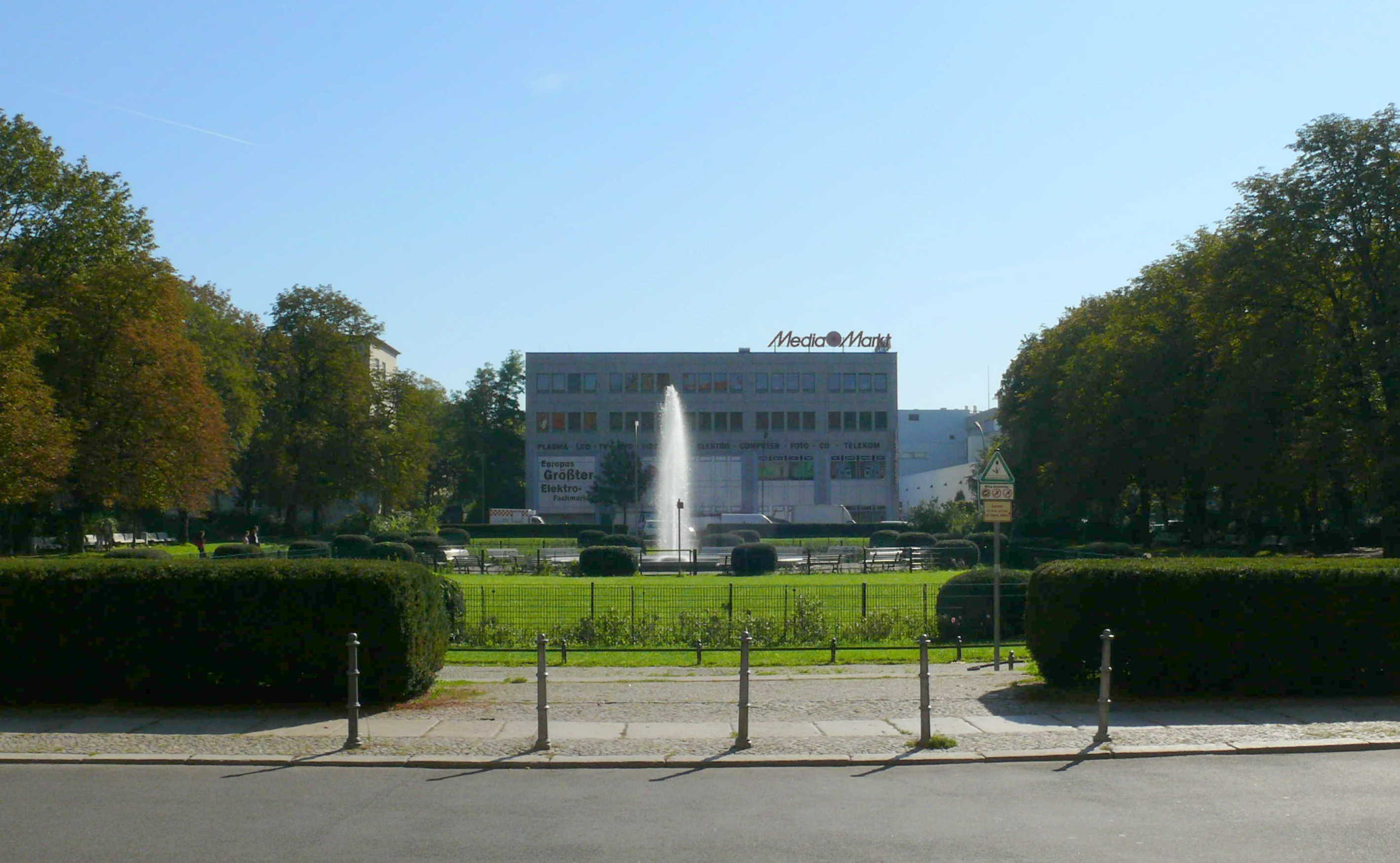 Berlin-Gesundbrunnen Brunnenplatz